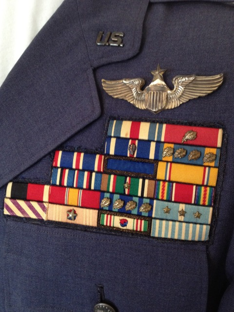 Photo of Colonel Robert Baldwin's ribbons on his dress uniform.